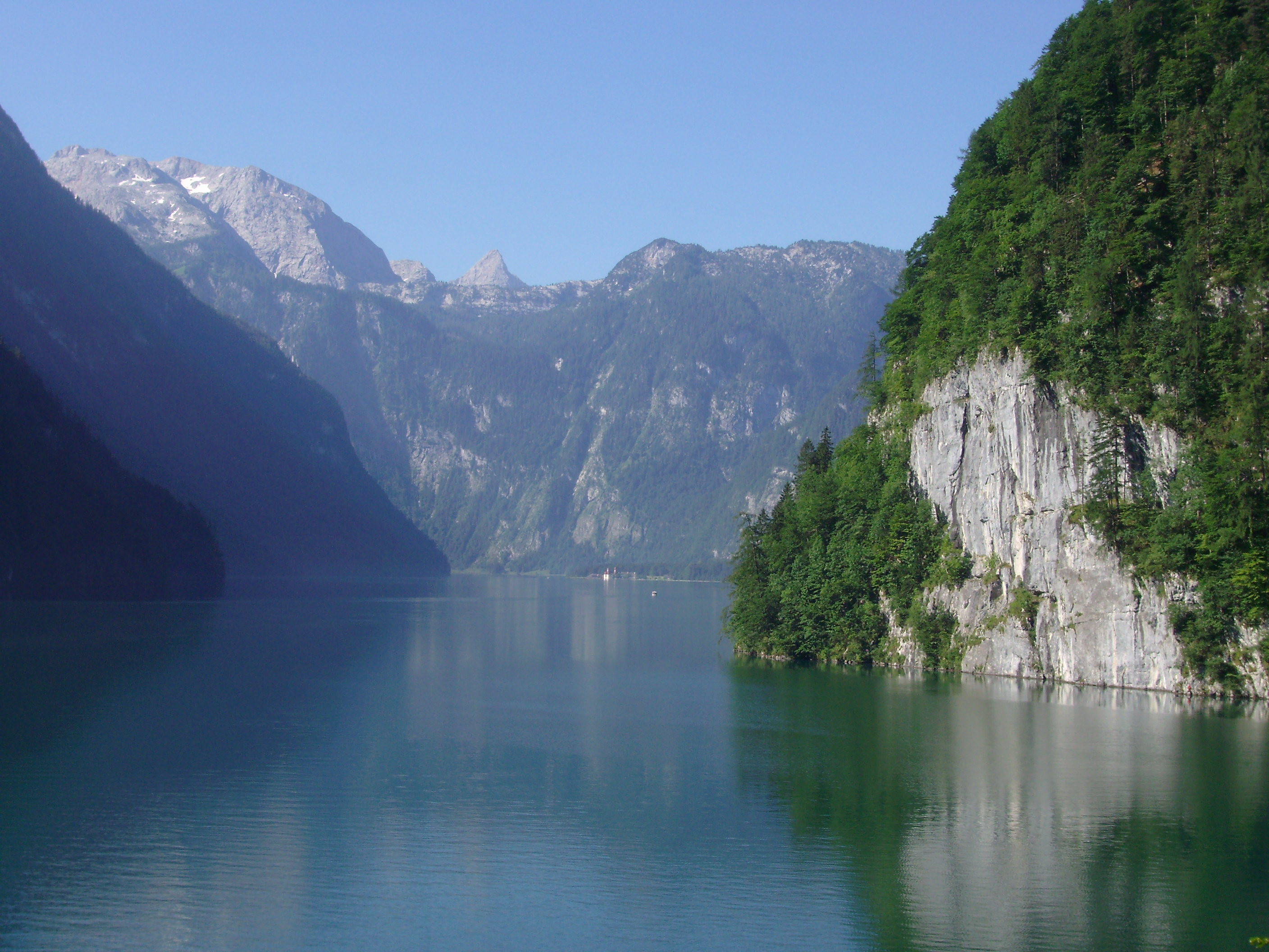 This photo is showing the Königssee in Bavaria, Germany.